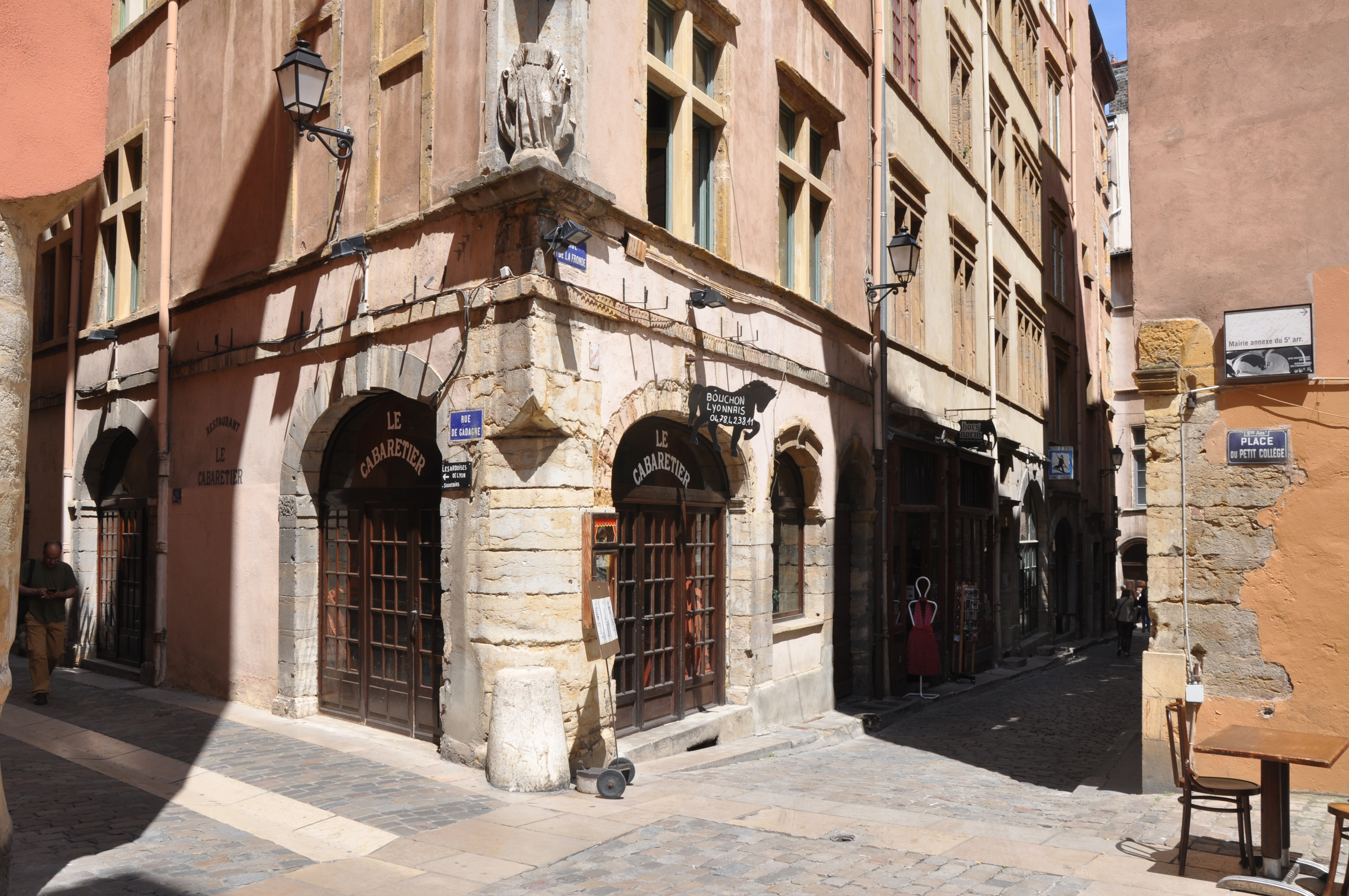 Street of la Fronde in historic Lyon (France)